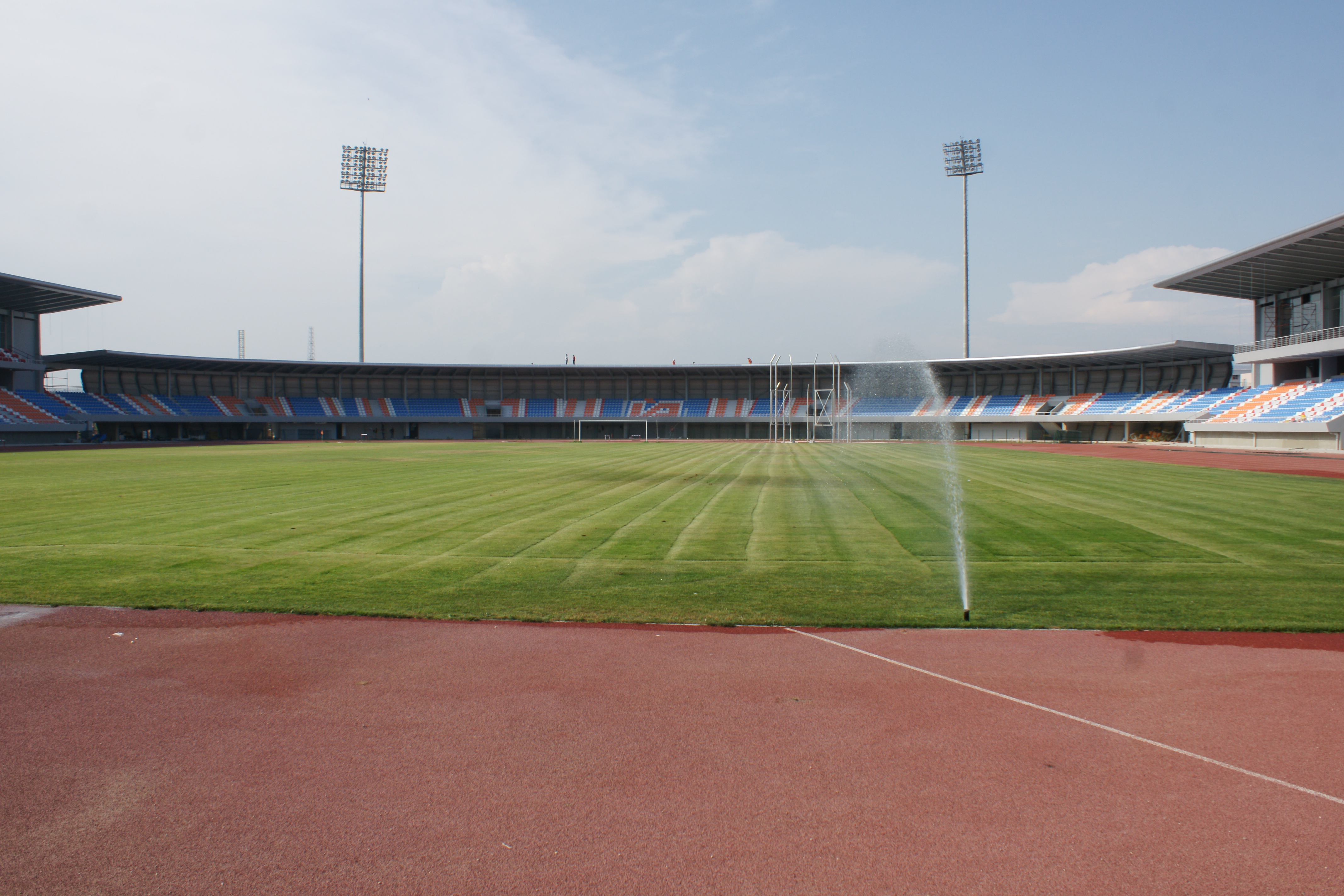 Antalyaspor'un 2012-2013 sezonunda oynayacağı stadyum.